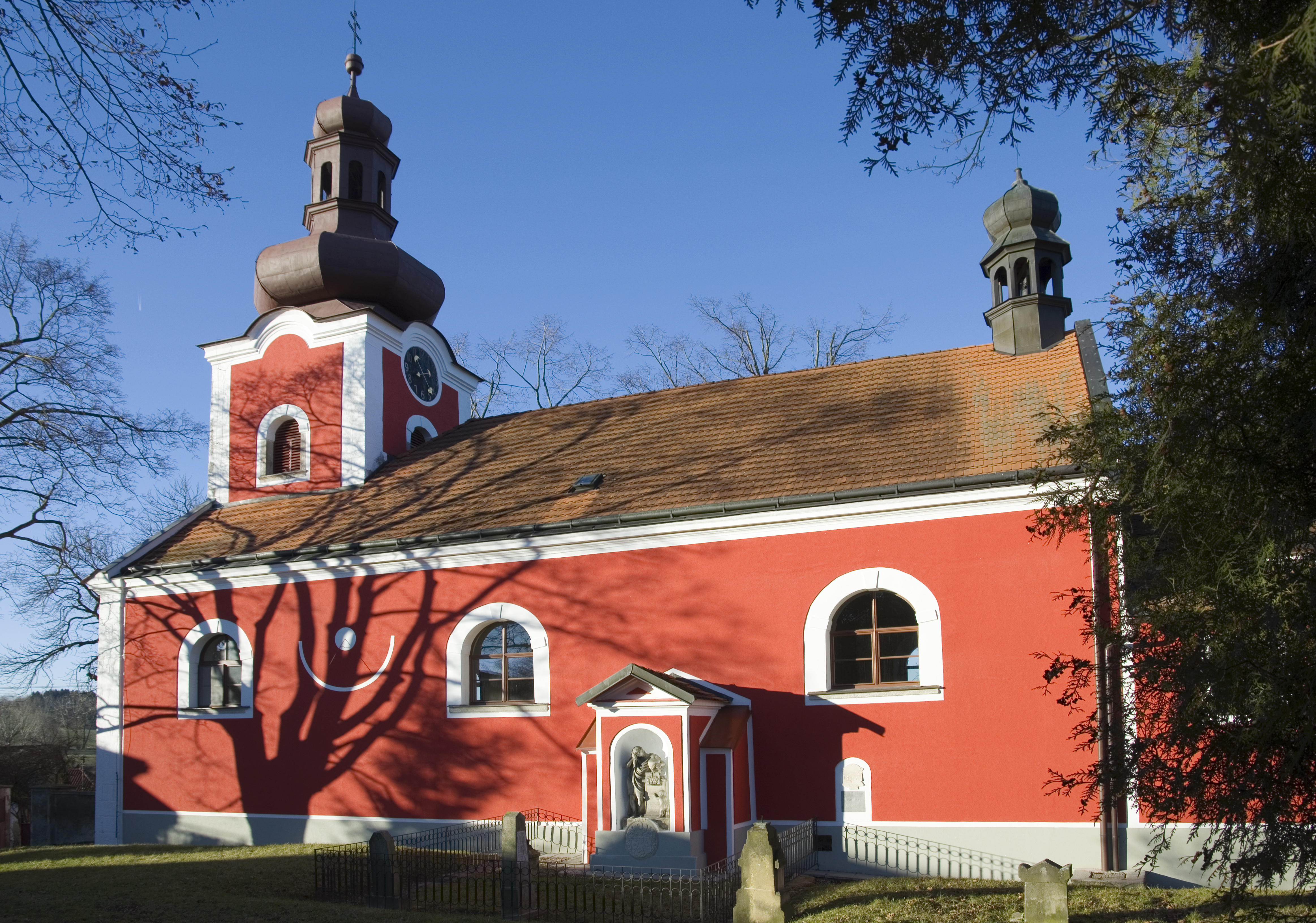 Church of St. Peter and Paul in Úsobí, Czech Republic